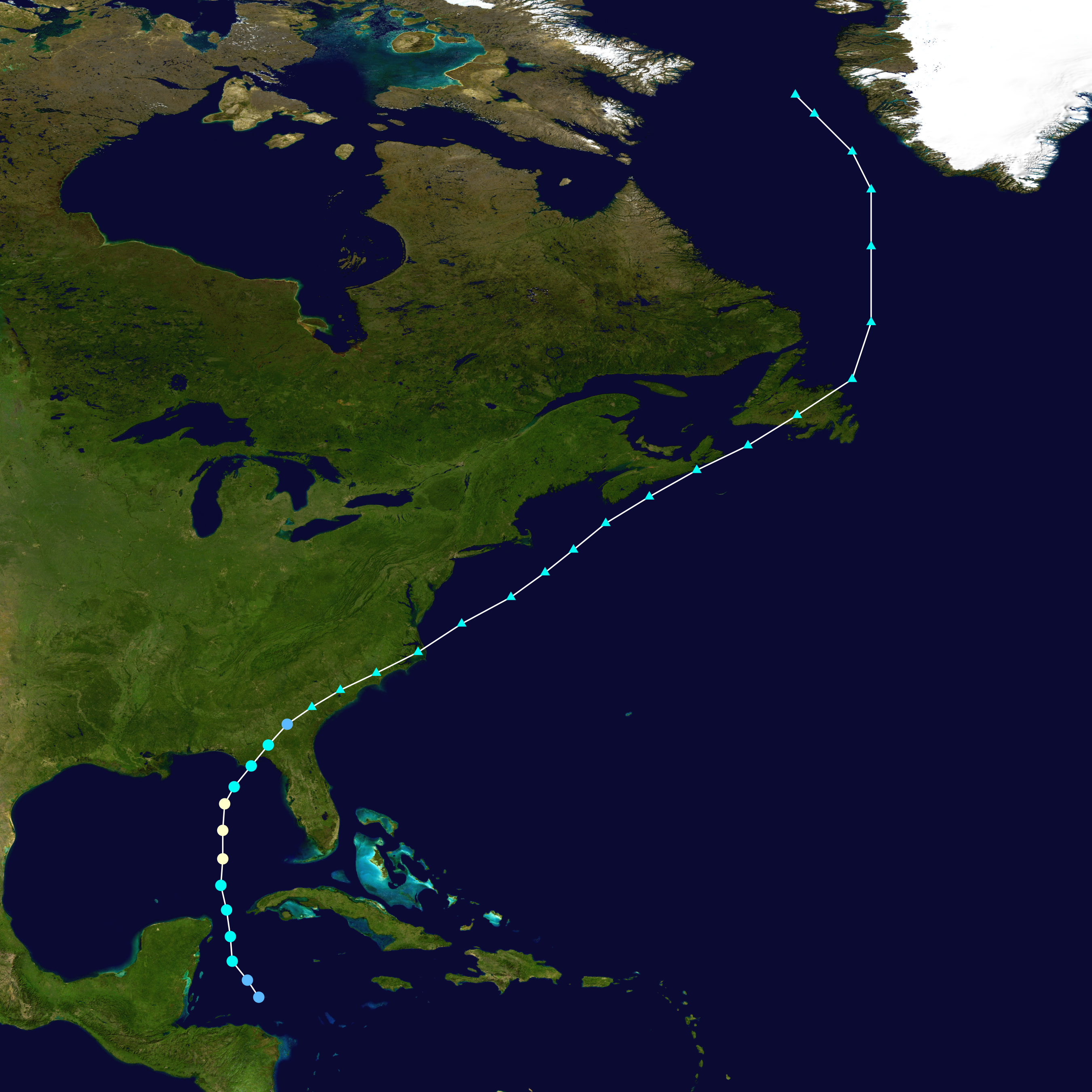 Track map of Hurricane Allison of the 1995 Atlantic hurricane season. The points show the location of the storm at 6-hour intervals. The colour represents the storm's maximum sustained wind speeds as classified in the Saffir–Simpson scale (see below), and the shape of the data points represent the nature of the storm, according to the legend below. Saffir–Simpson scale Tropical depression≤38 mph≤62 km/h Category 3111–129 mph178–208 km/h Tropical storm39–73 mph63–118 km/h Category 4130–156 mph209–251 km/h Category 174–95 mph119–153 km/h Category 5≥157 mph≥252 km/h Category 296–110 mph154–177 km/h Unknown Storm type Tropical cyclone Subtropical cyclone Extratropical cyclone / Remnant low / Tropical disturbance / Monsoon depression